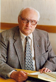 Mikhnevich Arnold